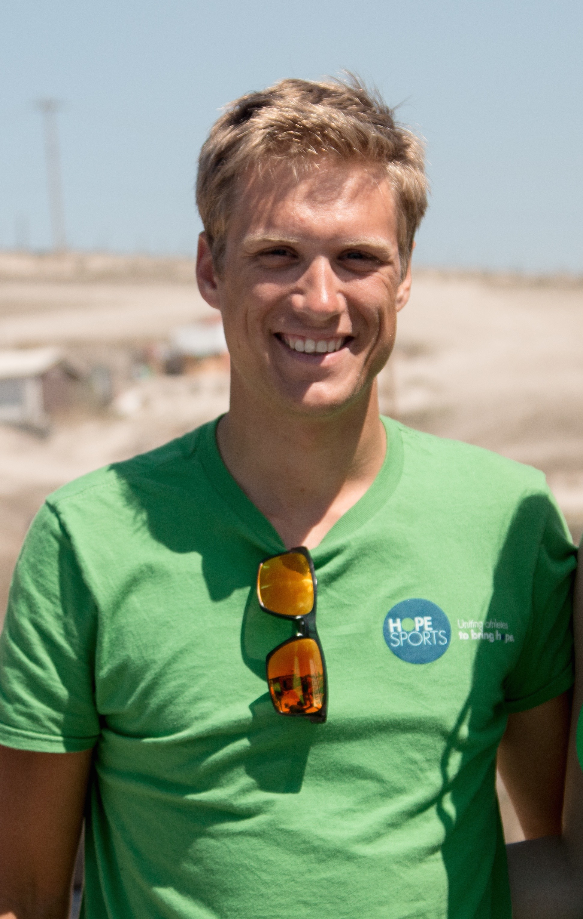 Hope Sports Outfit